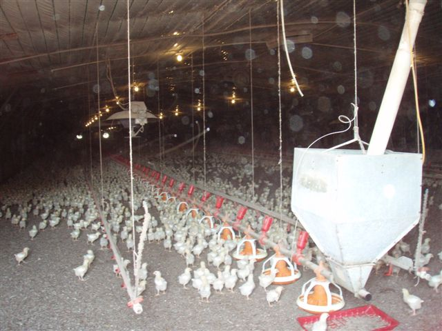 The NRCS has helped Nguyen’s farm store, compost and recycle chicken waste to be used for fertilizer.